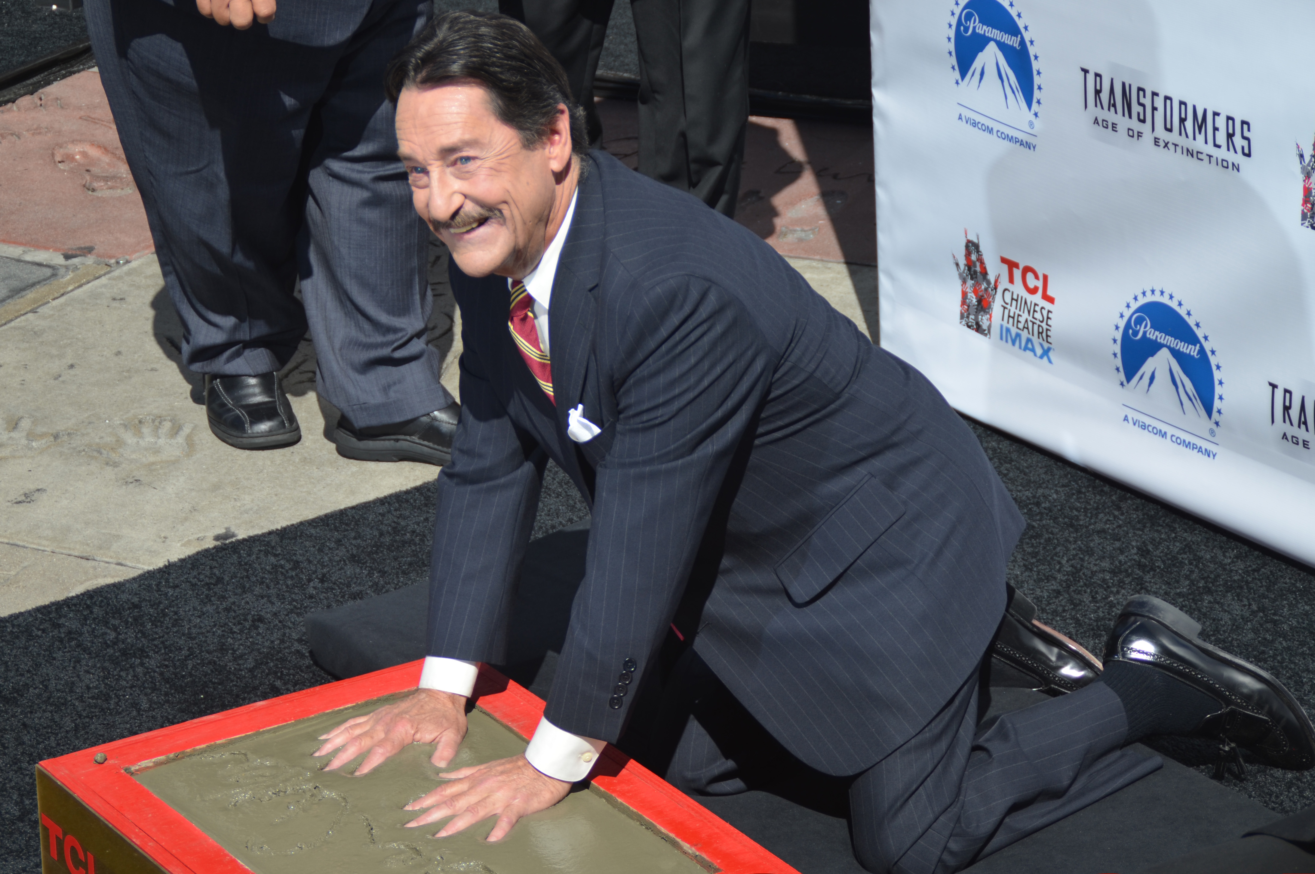 Actor Peter Cullen getting putting his handprints in wet concrete at the Optimus Prime Chinese Theatre Handprint Ceremony